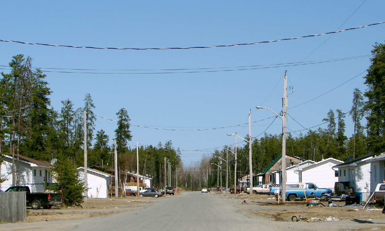 Wahgoshig First Nation (Abitibi 70 reserve), Ontario, Canada